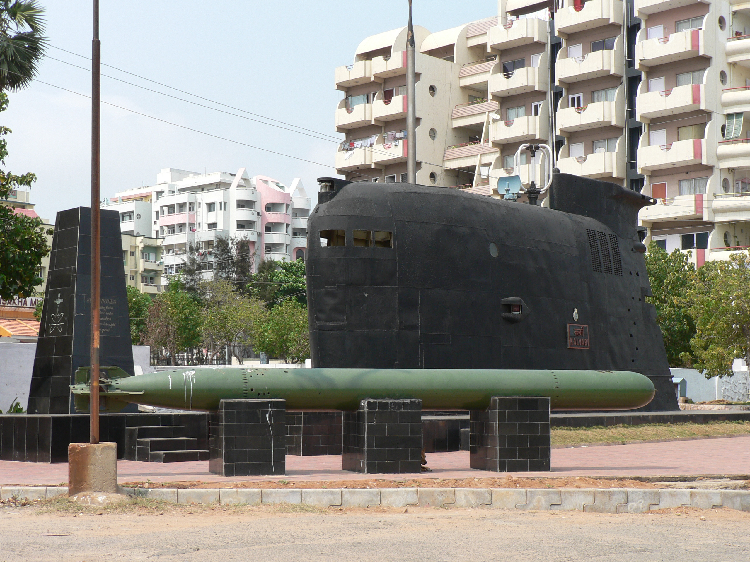 INS Kalvari Submarine Fin at RK Beach in Visakhapatnam, Andhra Pradesh